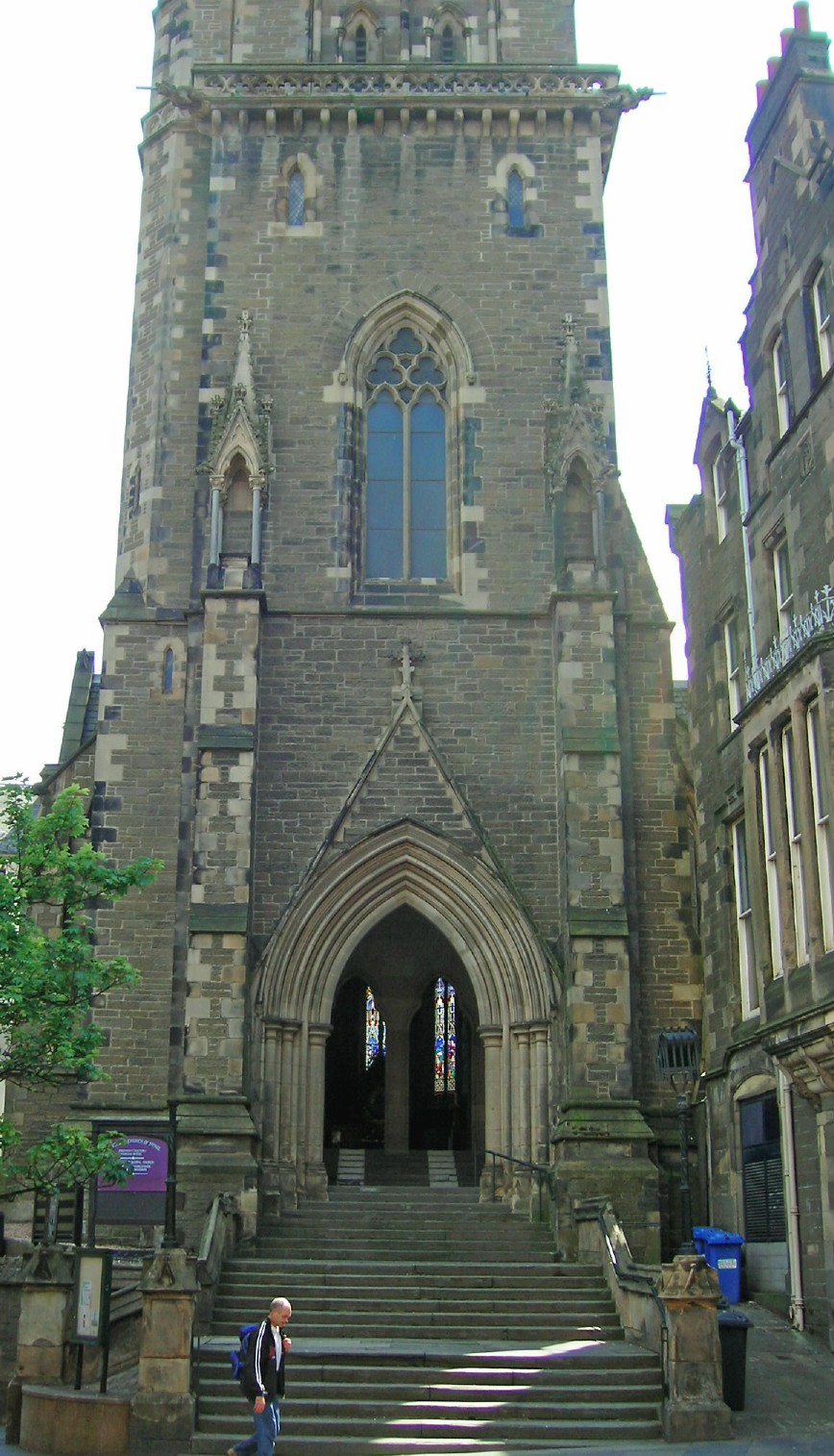 St Paul's Cathedral, Dundee, UK